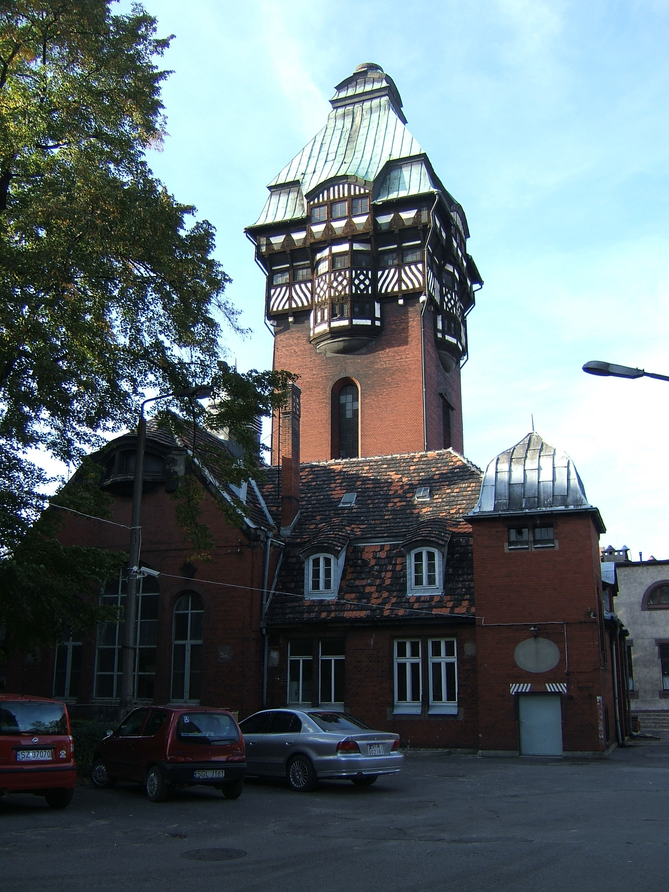 Water tower from 1905 in Zabrze.